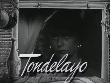 Hedy Lamarr in White Cargo, by Richard Thorpe (1942)